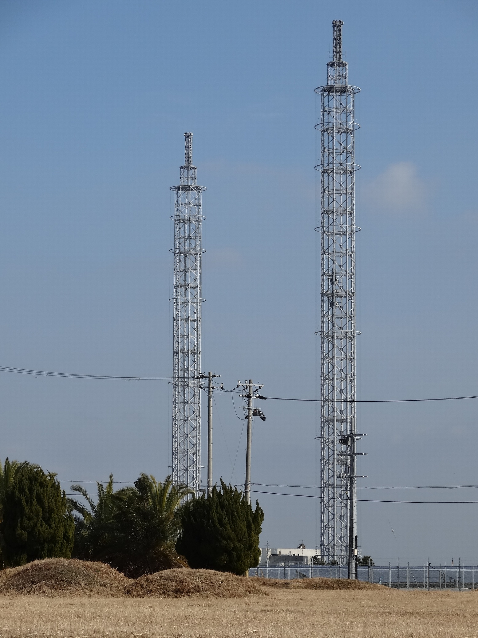 Radio Kansai (CRK) - Higashiura Transmitting Station (JOCR 558kHz)